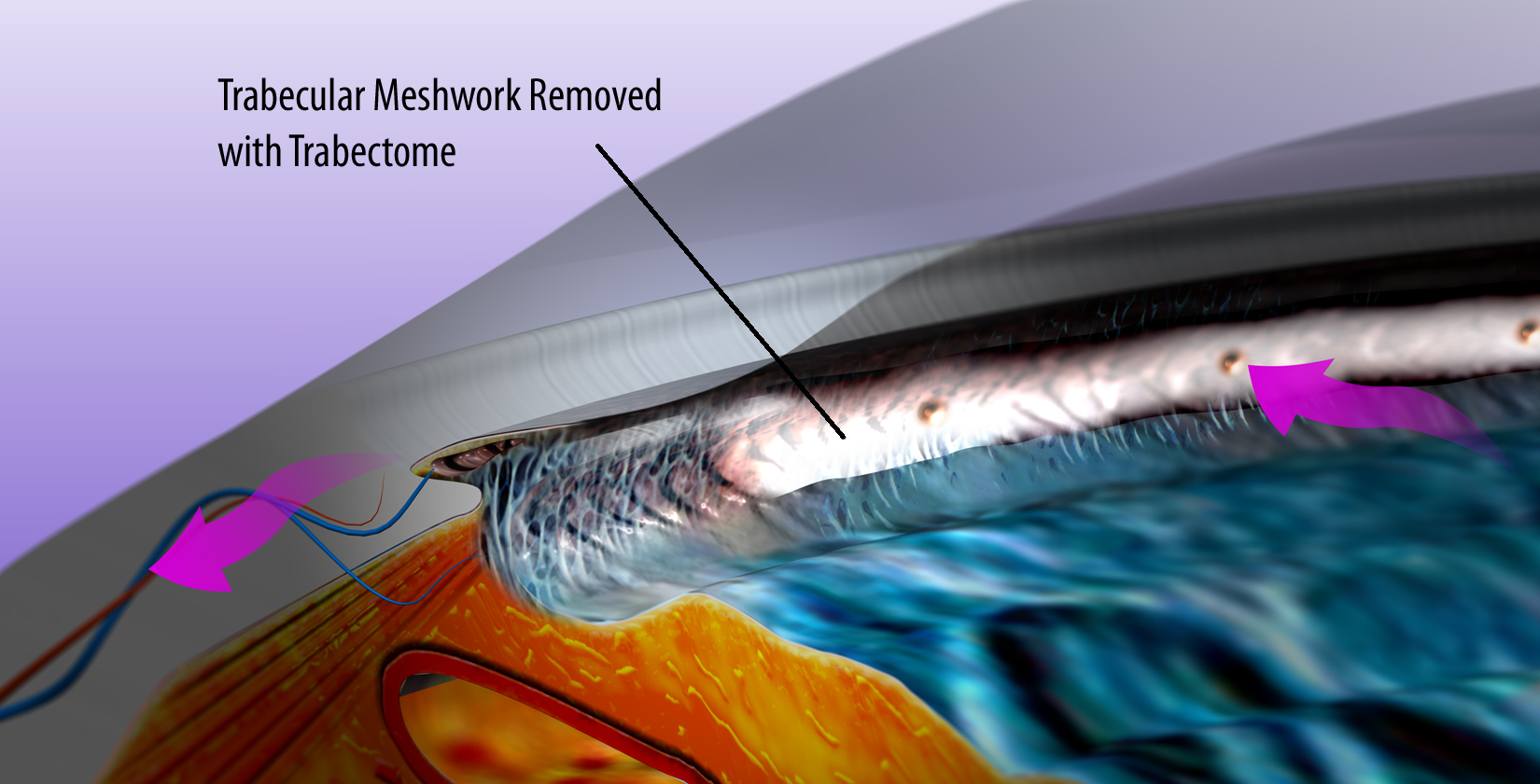 Glaucoma Eye after treated with Trabectome – Occular Humor Flow.